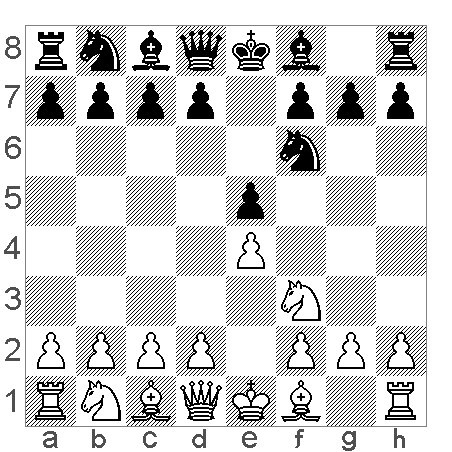 chess diagram Petrov defence (Russian game) Source: CBlight + my processing